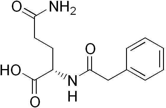 chemical structure of phenylacetylglutamine